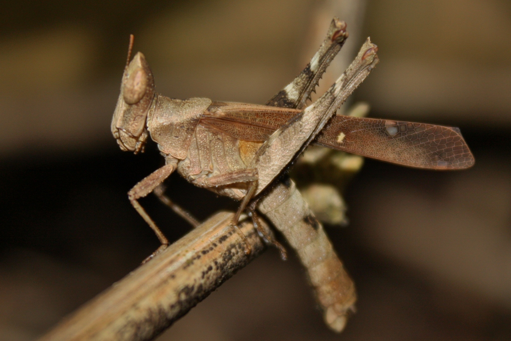 Taken near Ho Chung, Sai Kung. Any invert experts that know what actual species these are, I'd be interested to know.